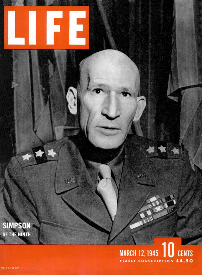 Front cover of the March 12, 1945, issue of Life magazine, featuring a photograph of Lieutenant General William Hood Simpson, commander of the U.S. Ninth Army in Europe